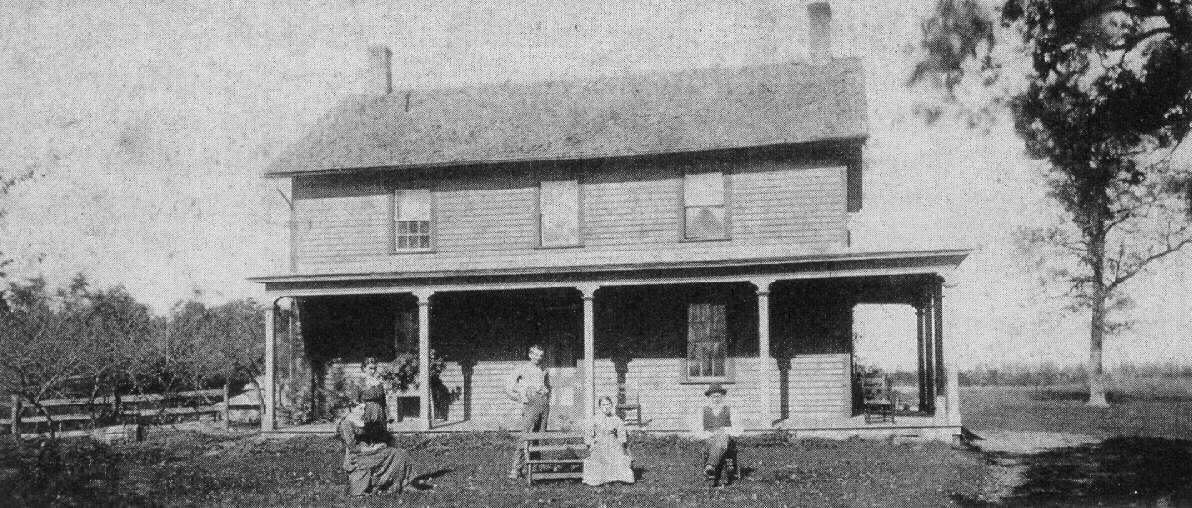 This photo is of the Gibbs family farm house circa 1870. The home is now in Falcon Heights, Minnesota.